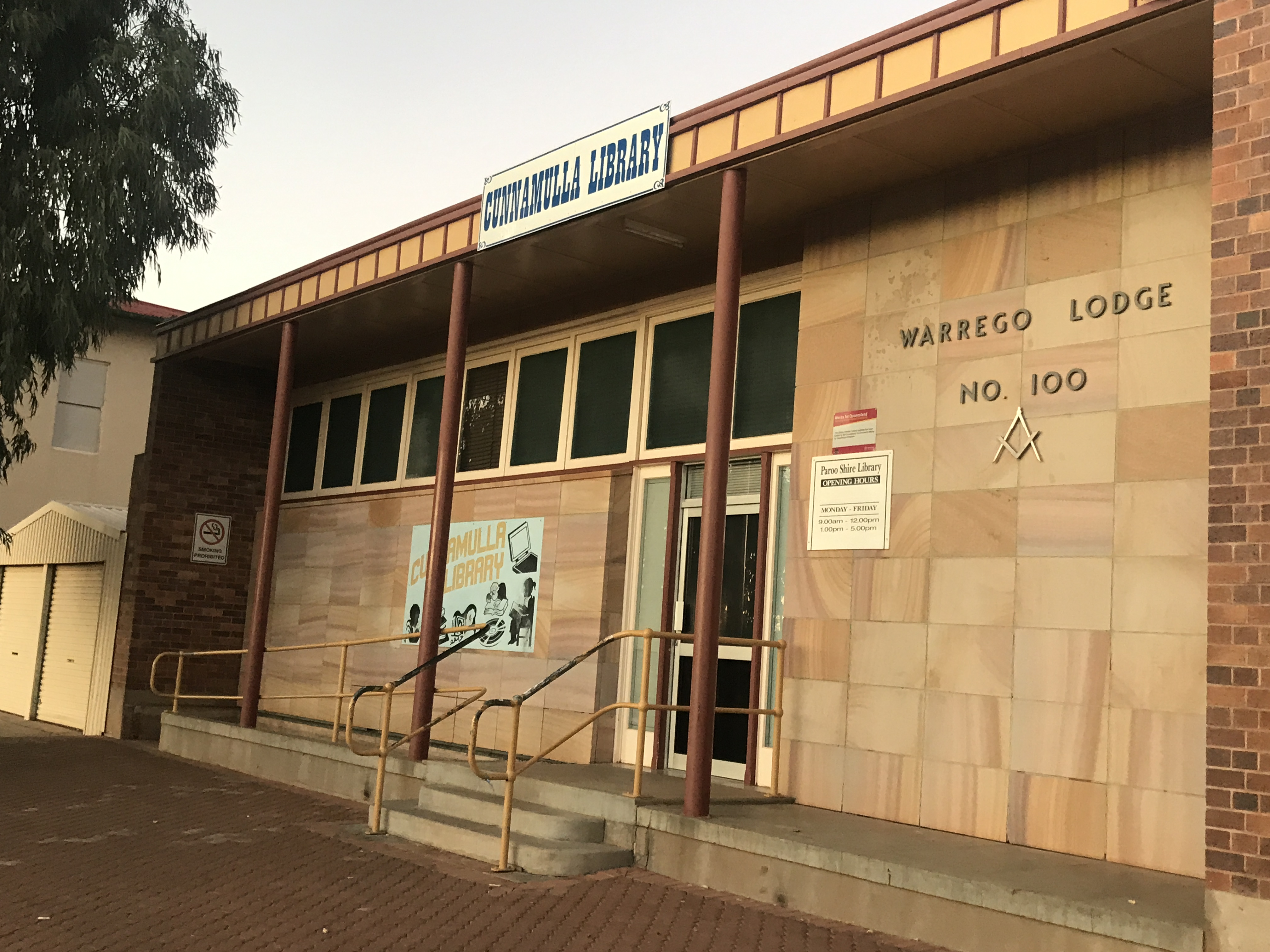 Cunnamulla library operated by the Paroo Shire Council, 2019